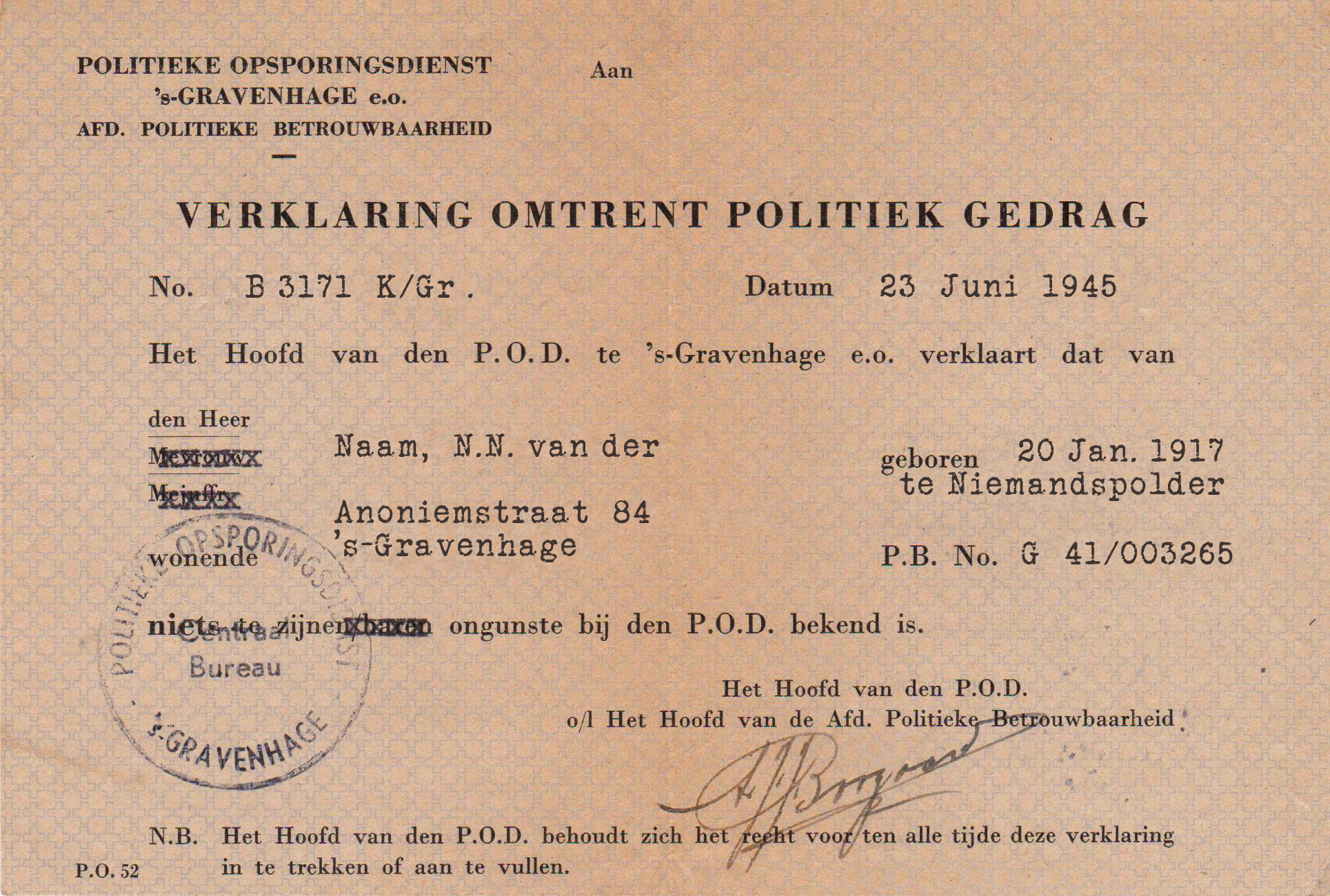 'Certificate of Political Behavior' of the Political Investigation Service for The Hague and surroundings, in the Netherlands. These statements were used in the second half of the forties of the twentieth century. This copy is anonymized.